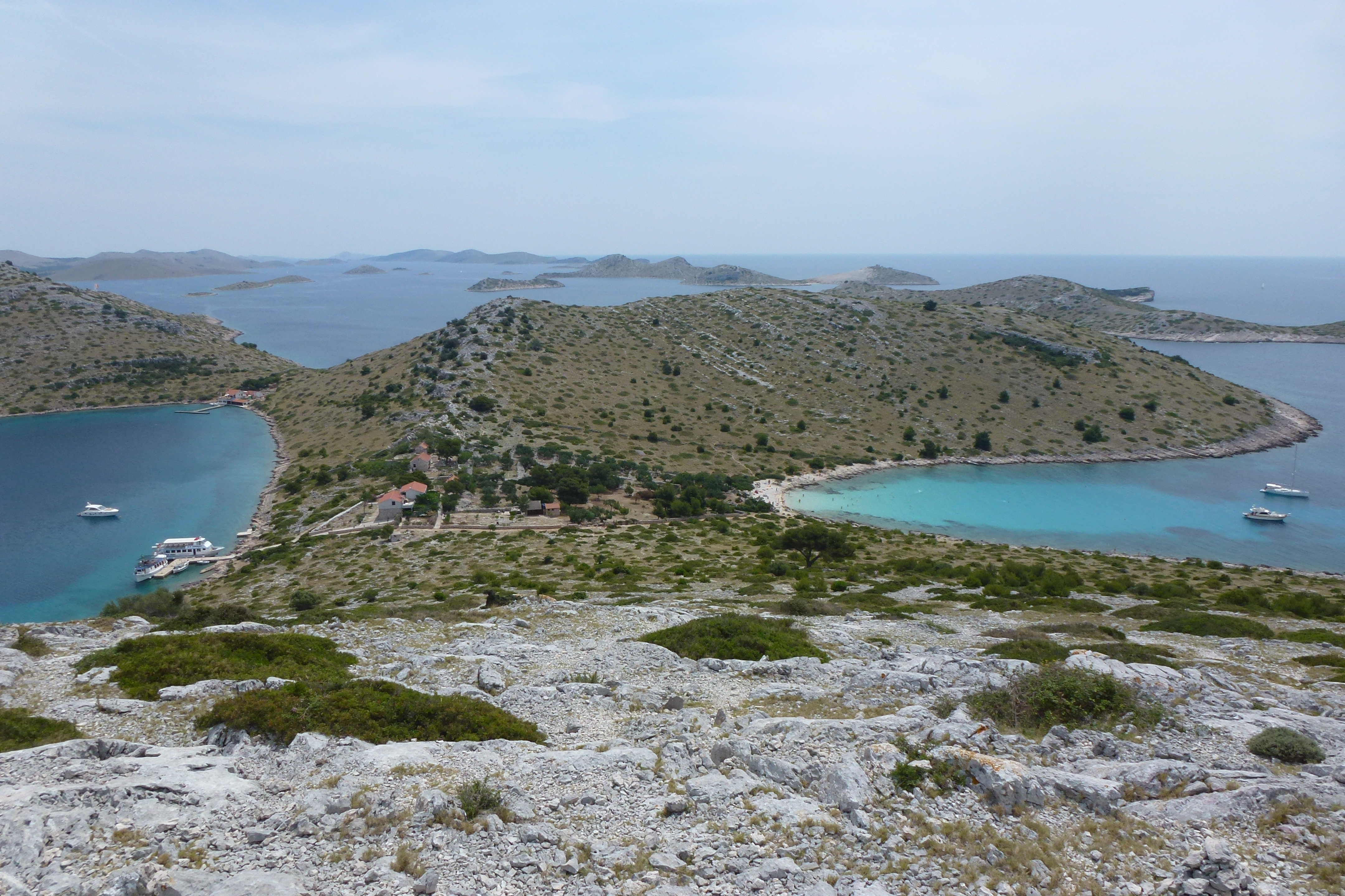 Levrnaka bay on left side.